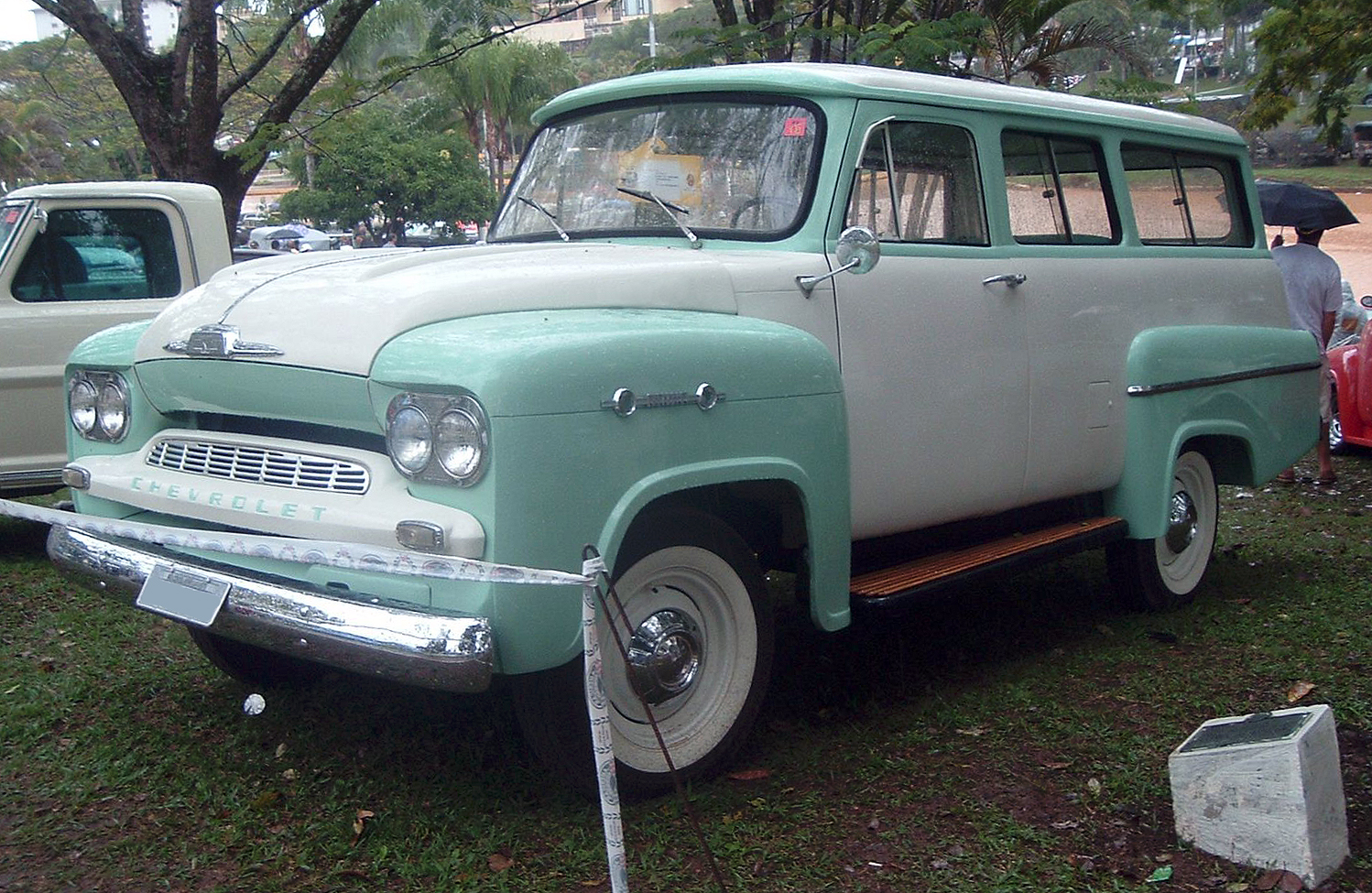 1963 Chevrolet Amazona. Based on the 3100 truck, with a locally developed station wagon rear, it was facelifted with twin headlamps for 1963. It was replaced by the Chevrolet Veraneio the next year.